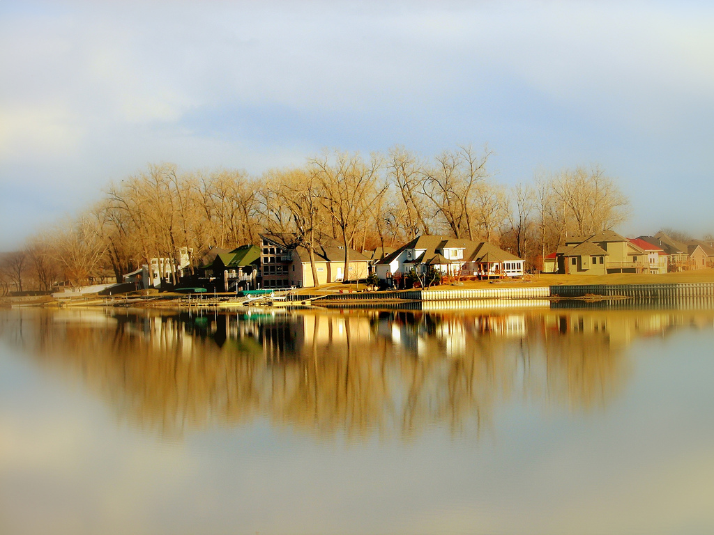 A section of Carter Lake as seen from the West (Nebraska side).